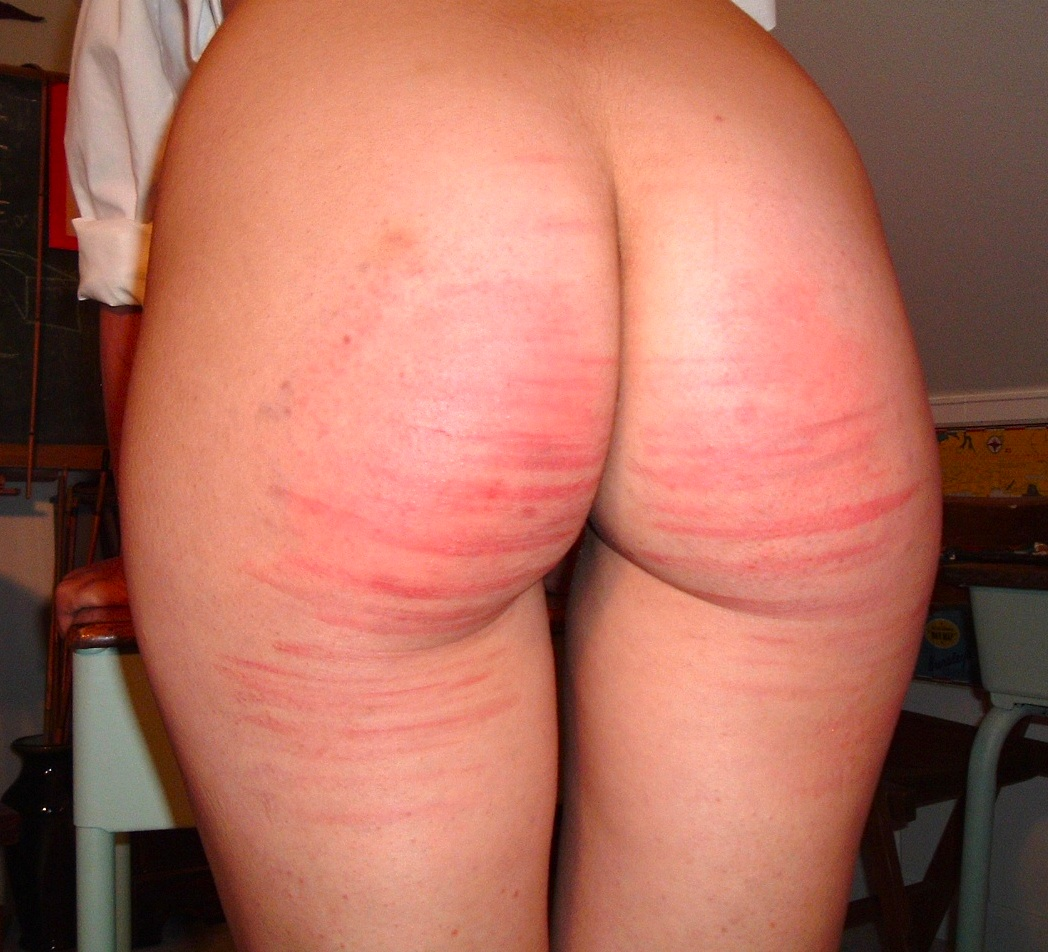 Amateur performer after caning in her only video, Final Exam by Jameslovebirch